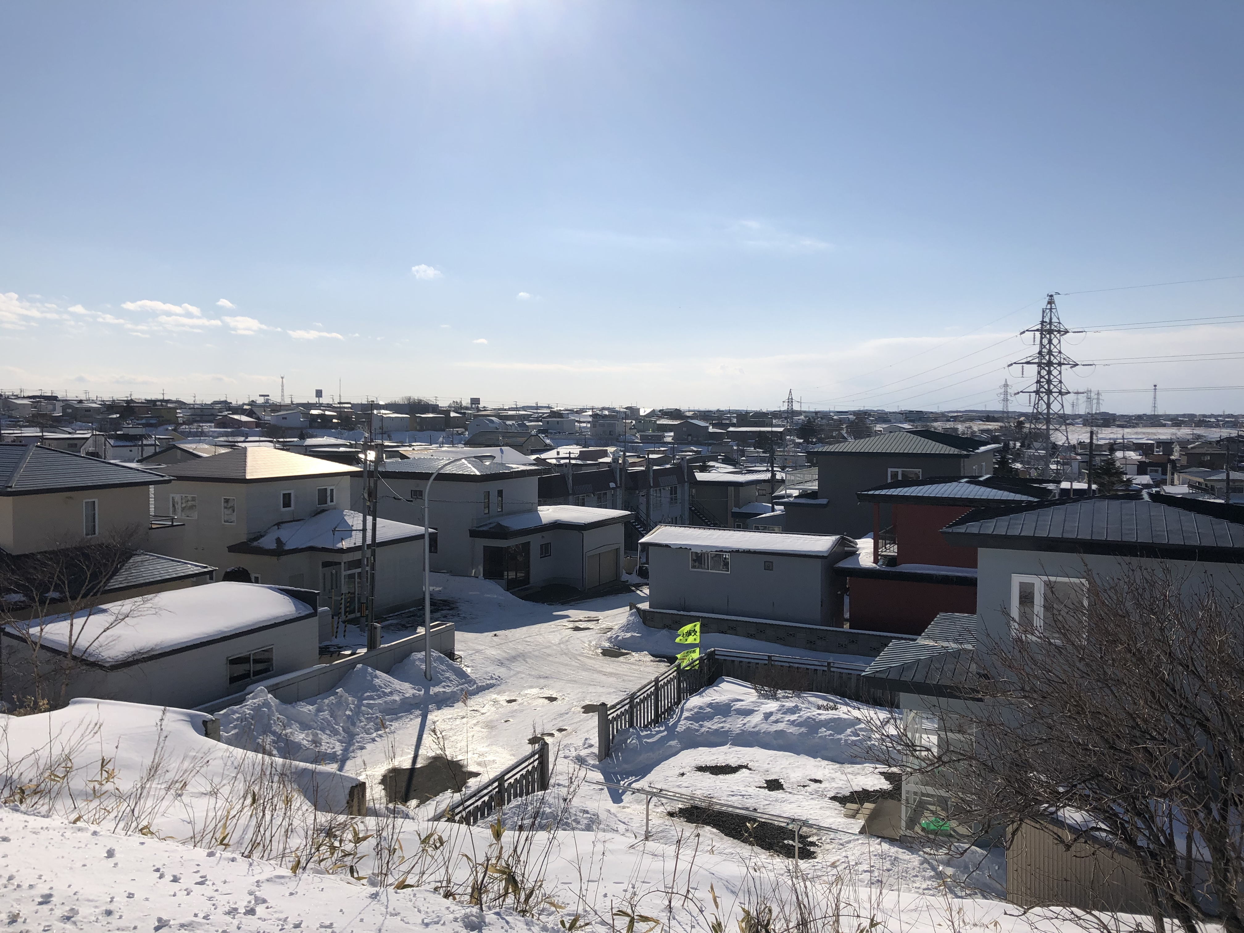 An image of the southwest direction taken from the platform of Higashi-Nemuro Station. Taken on February 13, 2019.